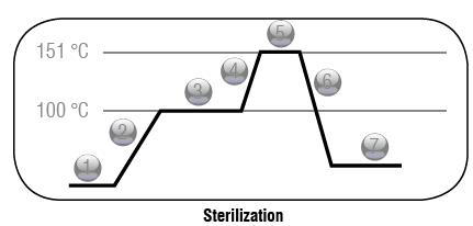 Ciclo processo Converter